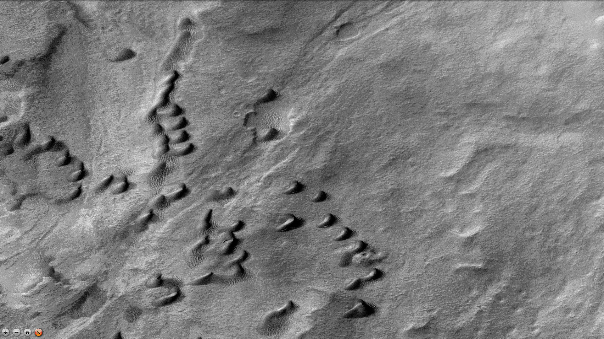 Eastern part of Maunder crater showing dunes, as seen by CTX